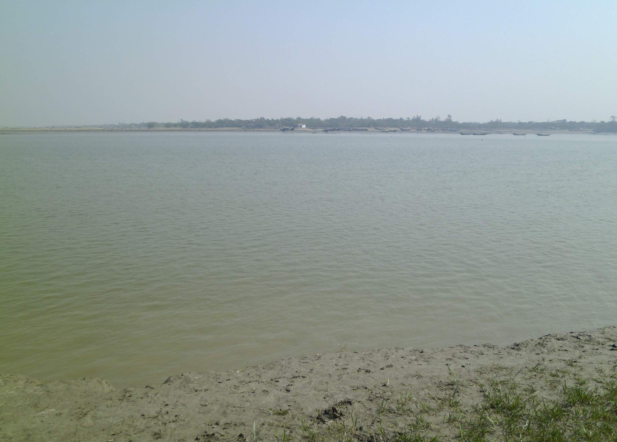 Matla River (Canning) during low tide in winter.